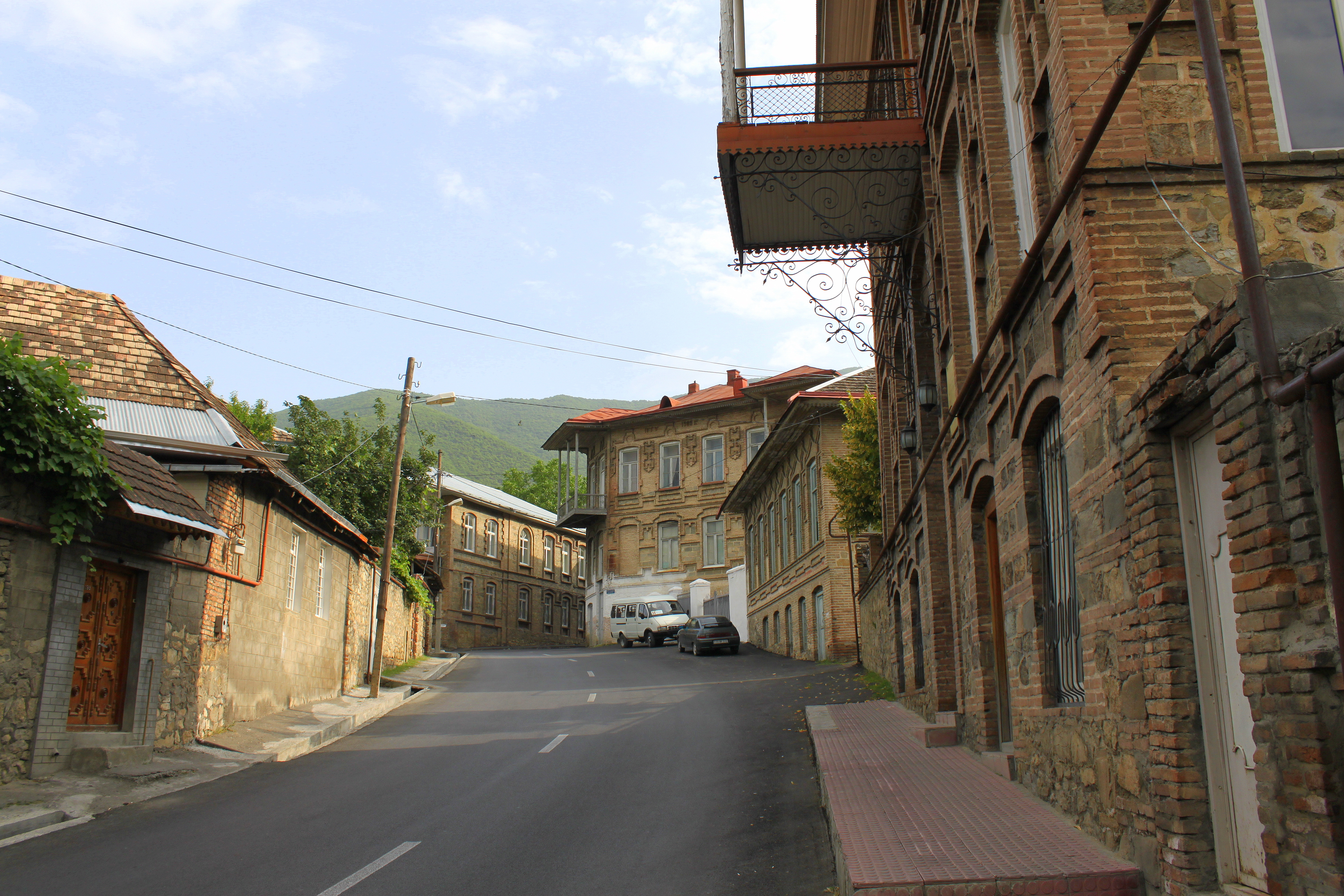 street in Sheki, Azerbaijan.